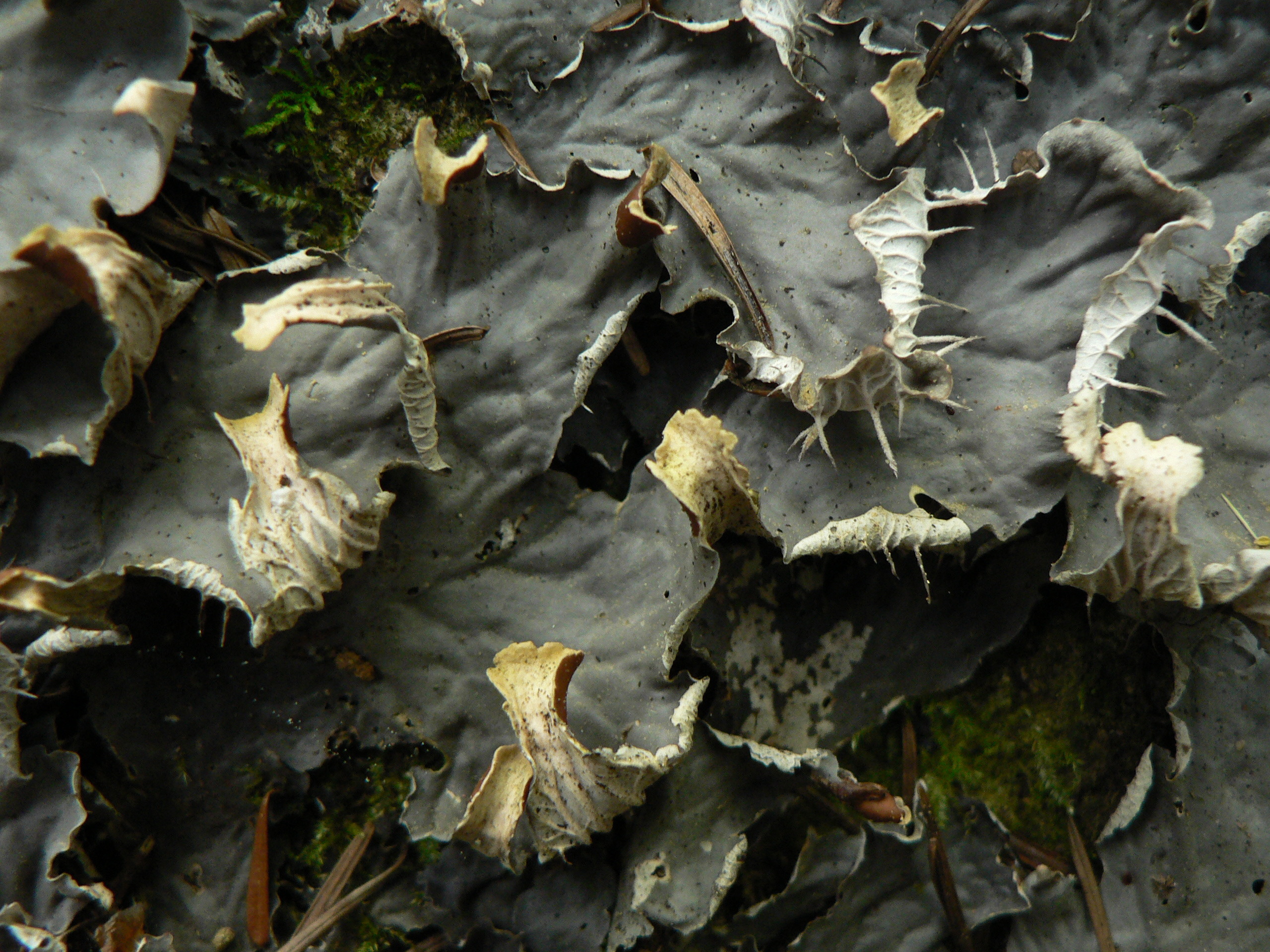 Felt Lichen